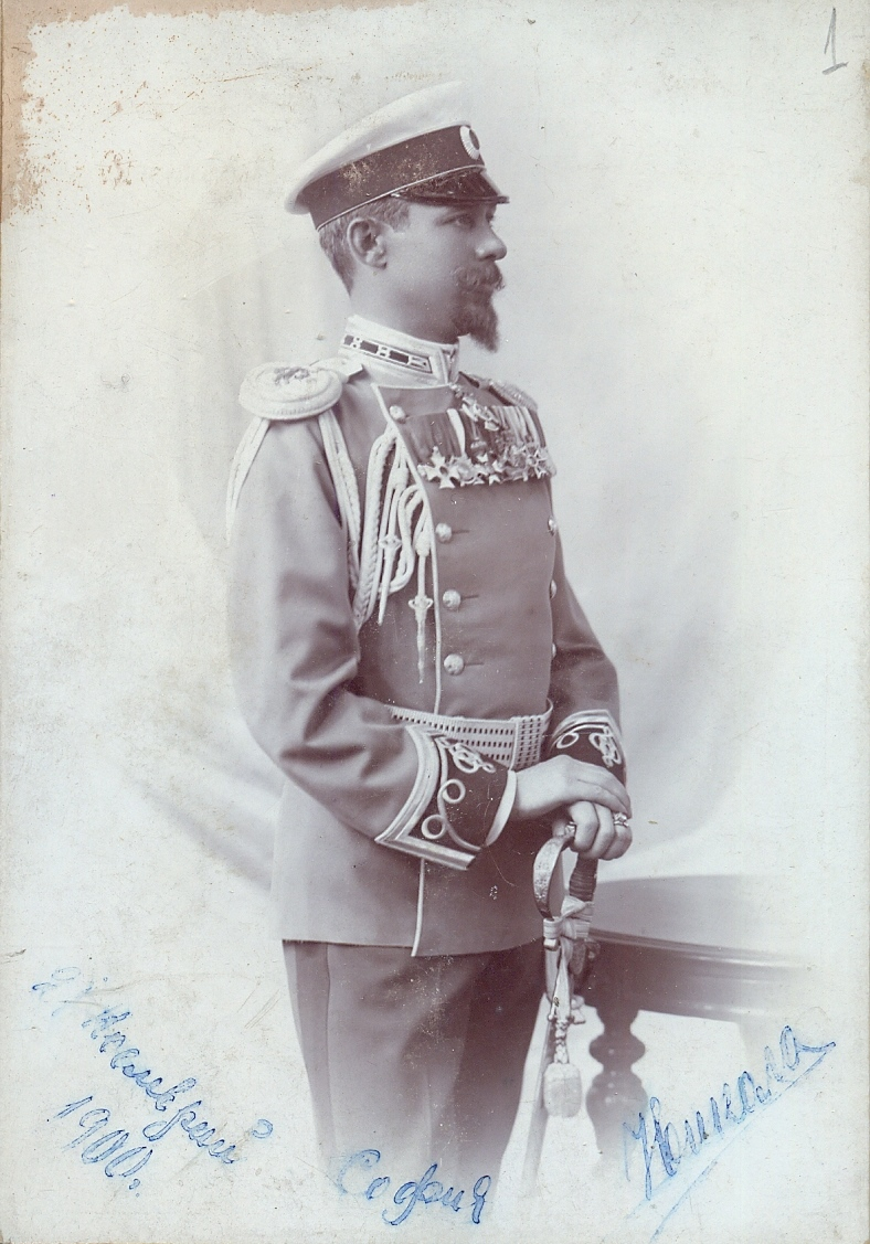 Bulgarian officer Nikola Radev.